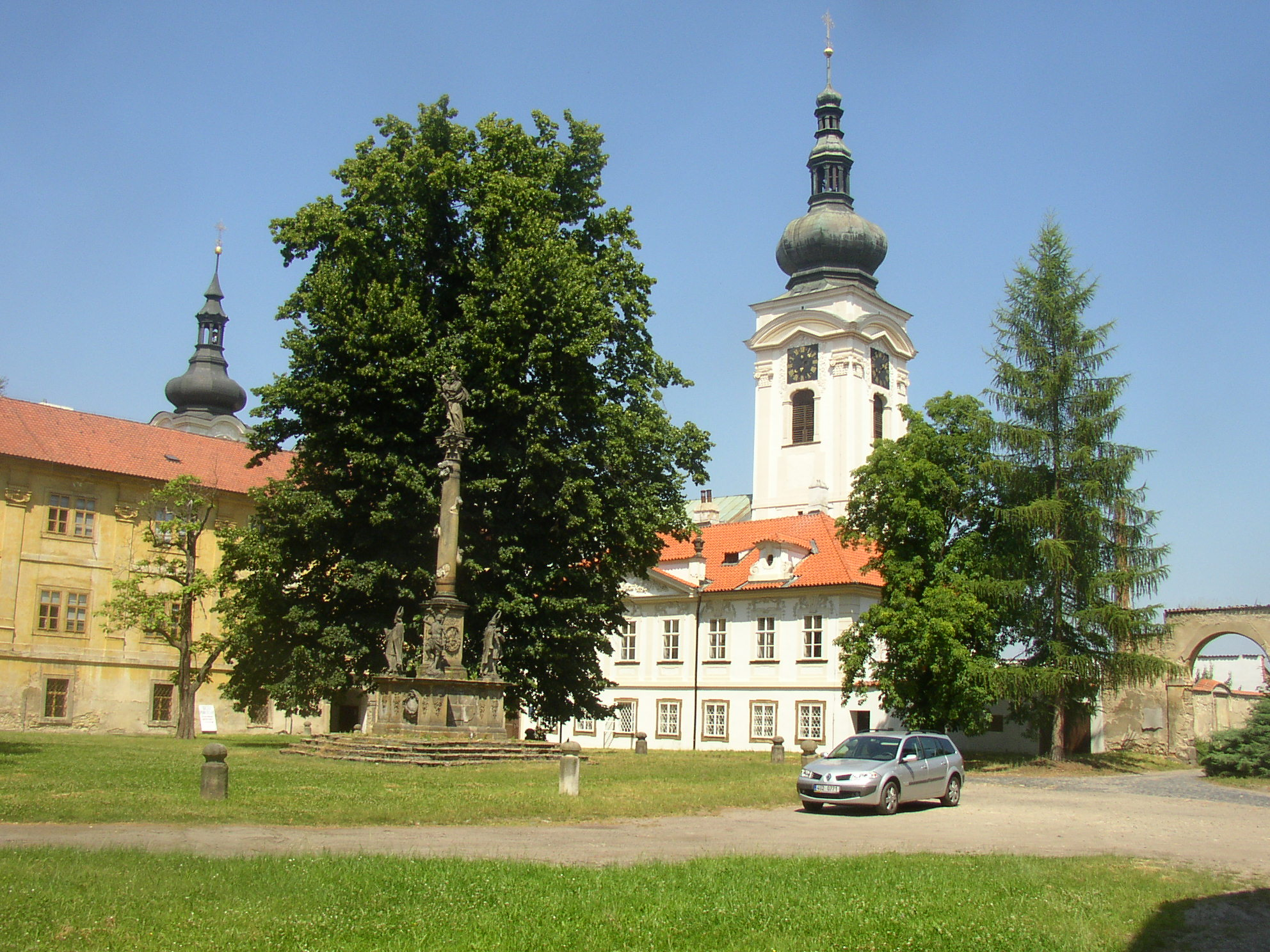 First courtyard of female Premonstratensian convent in Doksany, Litoměřice District, Czech Republic. A view from the southeast, in the middle Marian plague column (1684), in the left building of prelature (1692) separating the first courtyard from the second one, in the right building of provisory (1725-30) with eastern tower (1718) of church of the Nativity of the Virgin Mary in the background.